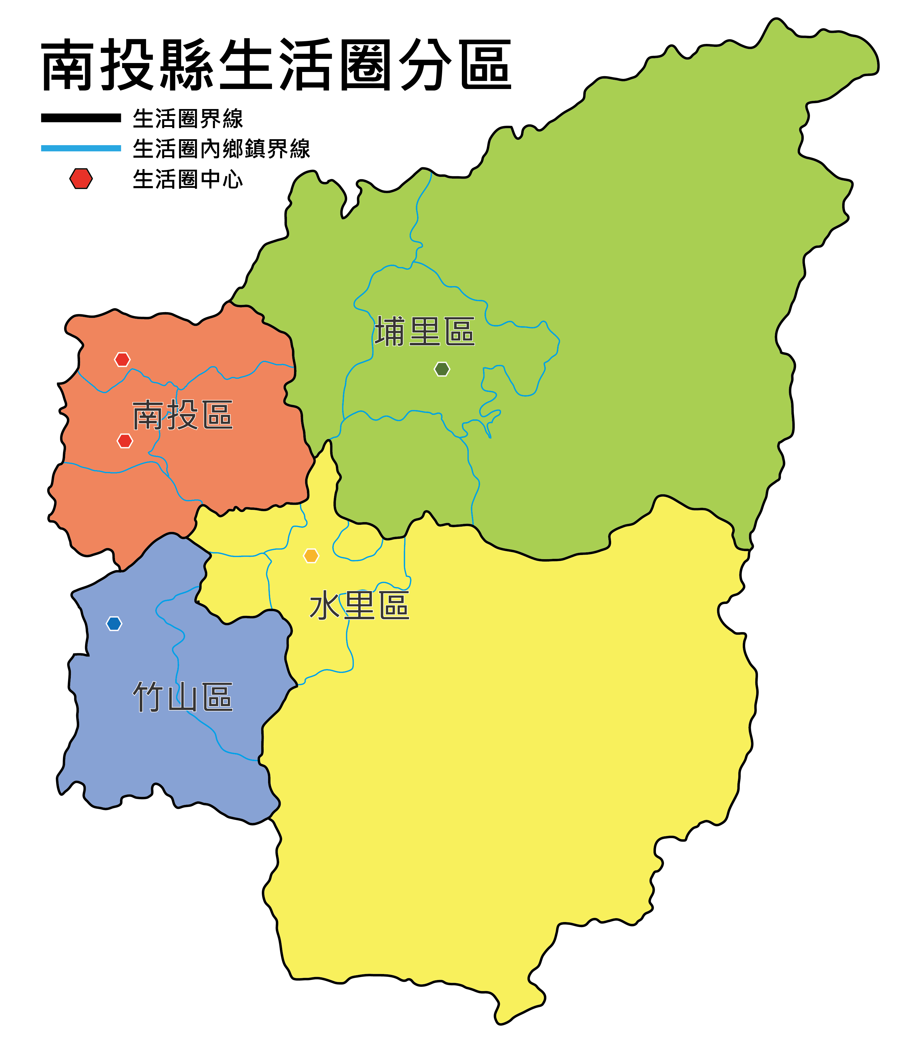 Nantou County Life area